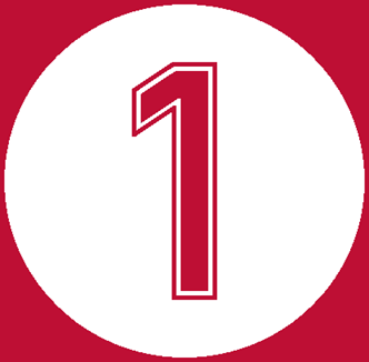 The number "1", retired for Fred Hutchinson by the Cincinnati Reds.